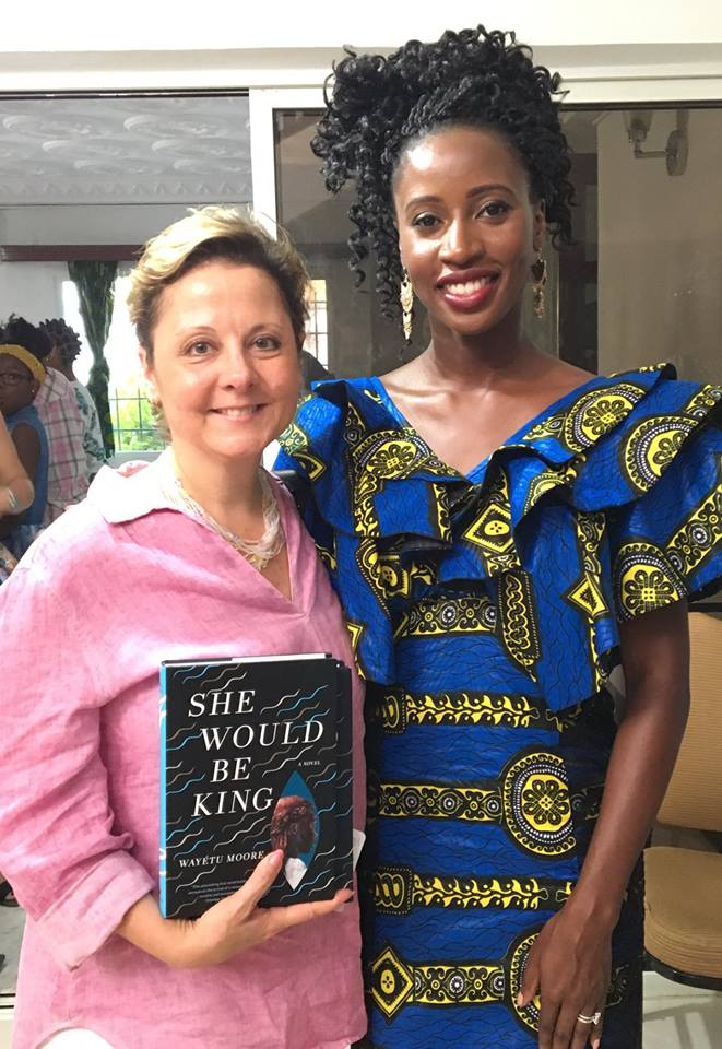 U.S. Ambassador Christine Elder (left) and Liberian-American author Wayétu Moore (right). The U.S. Embassy in Monrovia hosted a reading from Moore's debut novel, "She Would Be King," on Friday, November 2, 2018. The book reimagines Liberia's founding years through three "characters and vivid storytelling that employs magical realism, history, and myth." Ambassador Elder holds a copy of Moore's book in the photo.